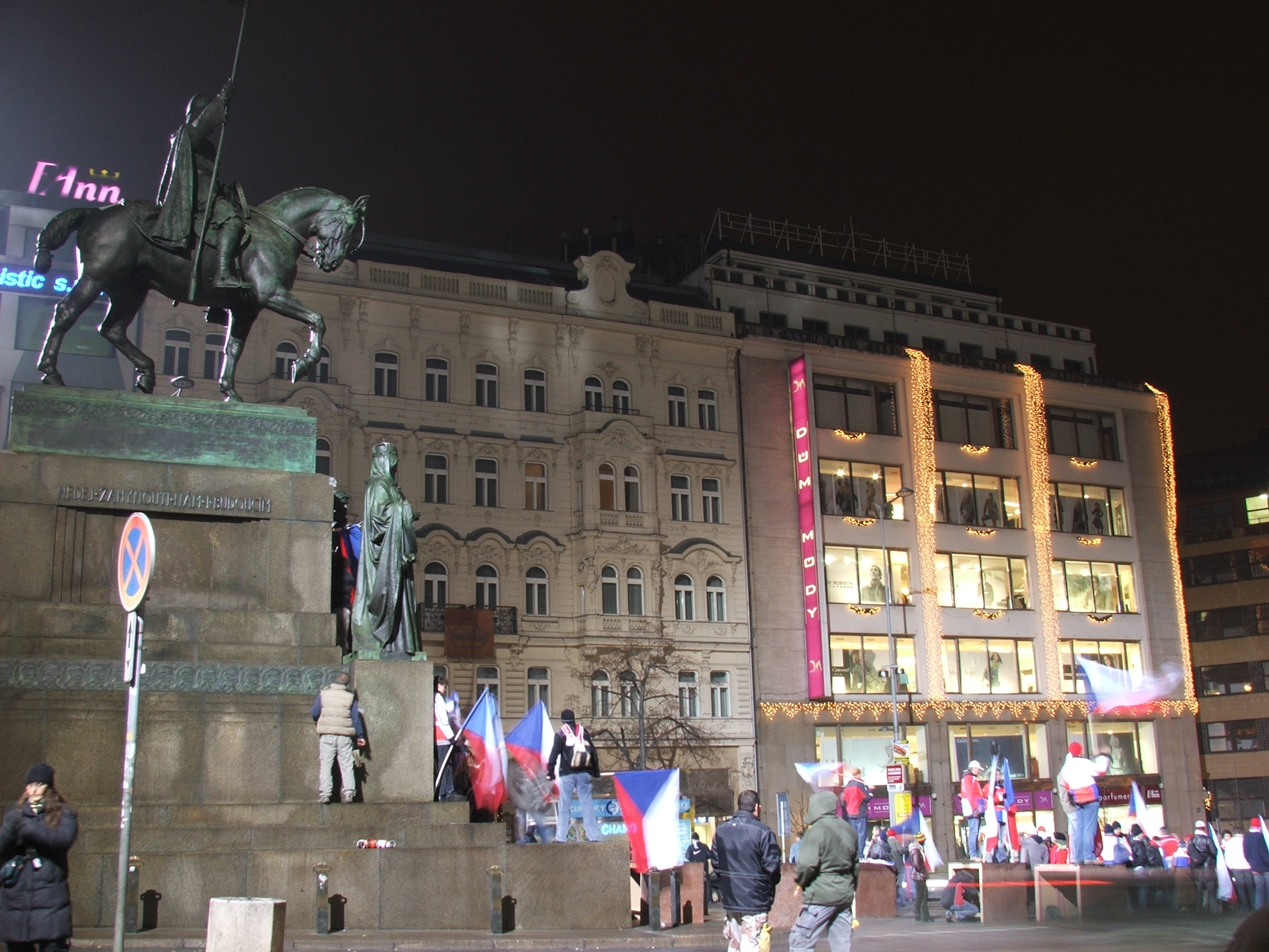 Venceslas Square, statue of St. Venceslas, people performing for publicity spot for a mobile operator, Prague, 2005